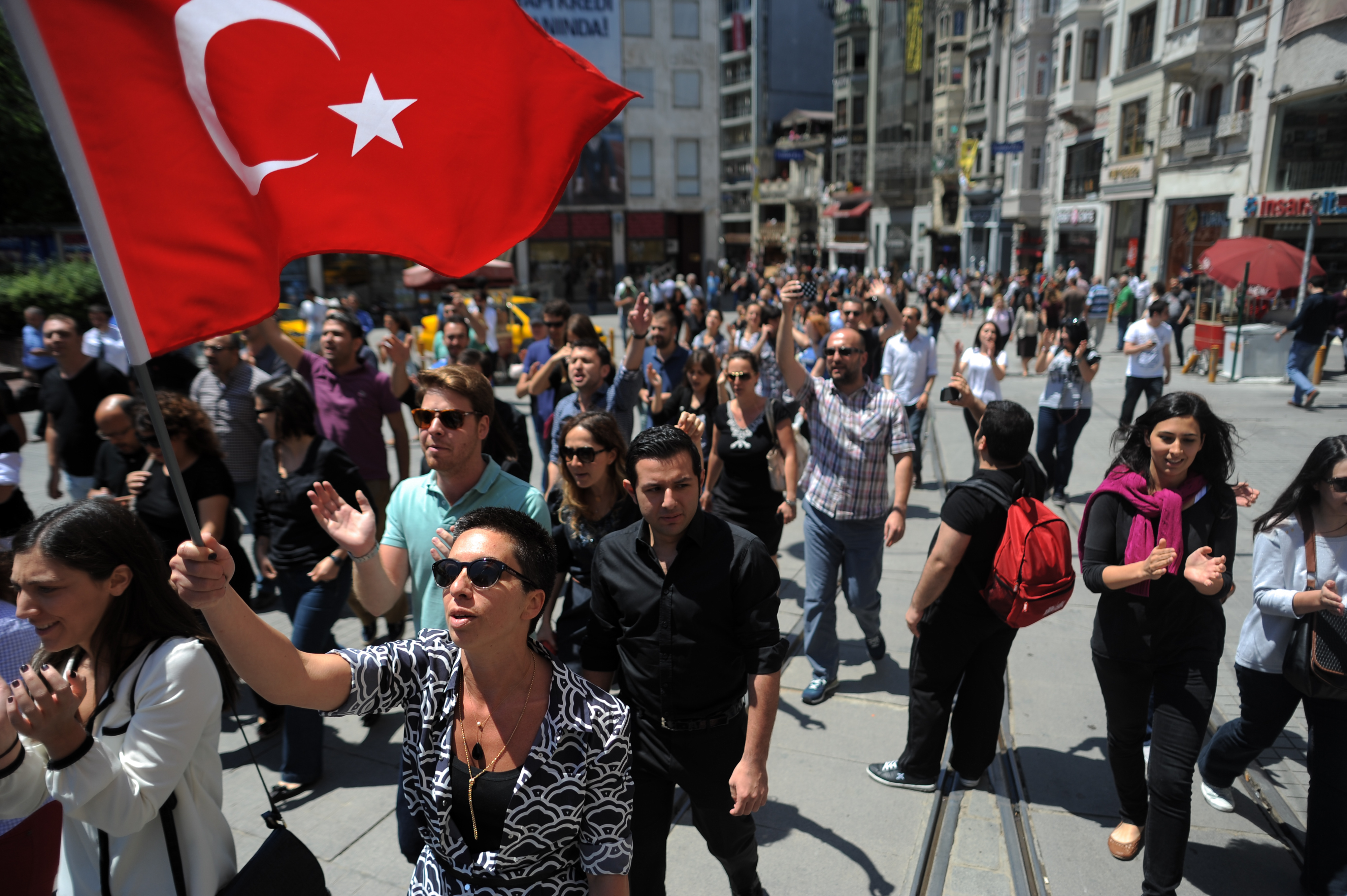 Peaceful daytime demonstrations heading towards Taksim park. Events of June 3, 2013.